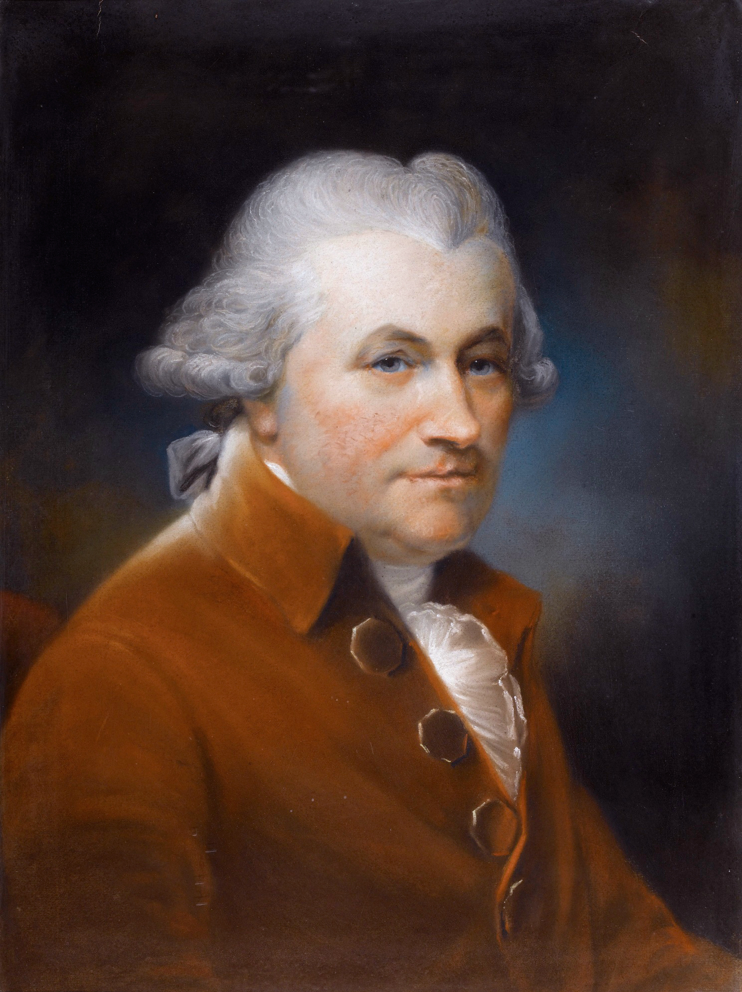 John Johnson (1732-1814) pastel 60 x 43 cm